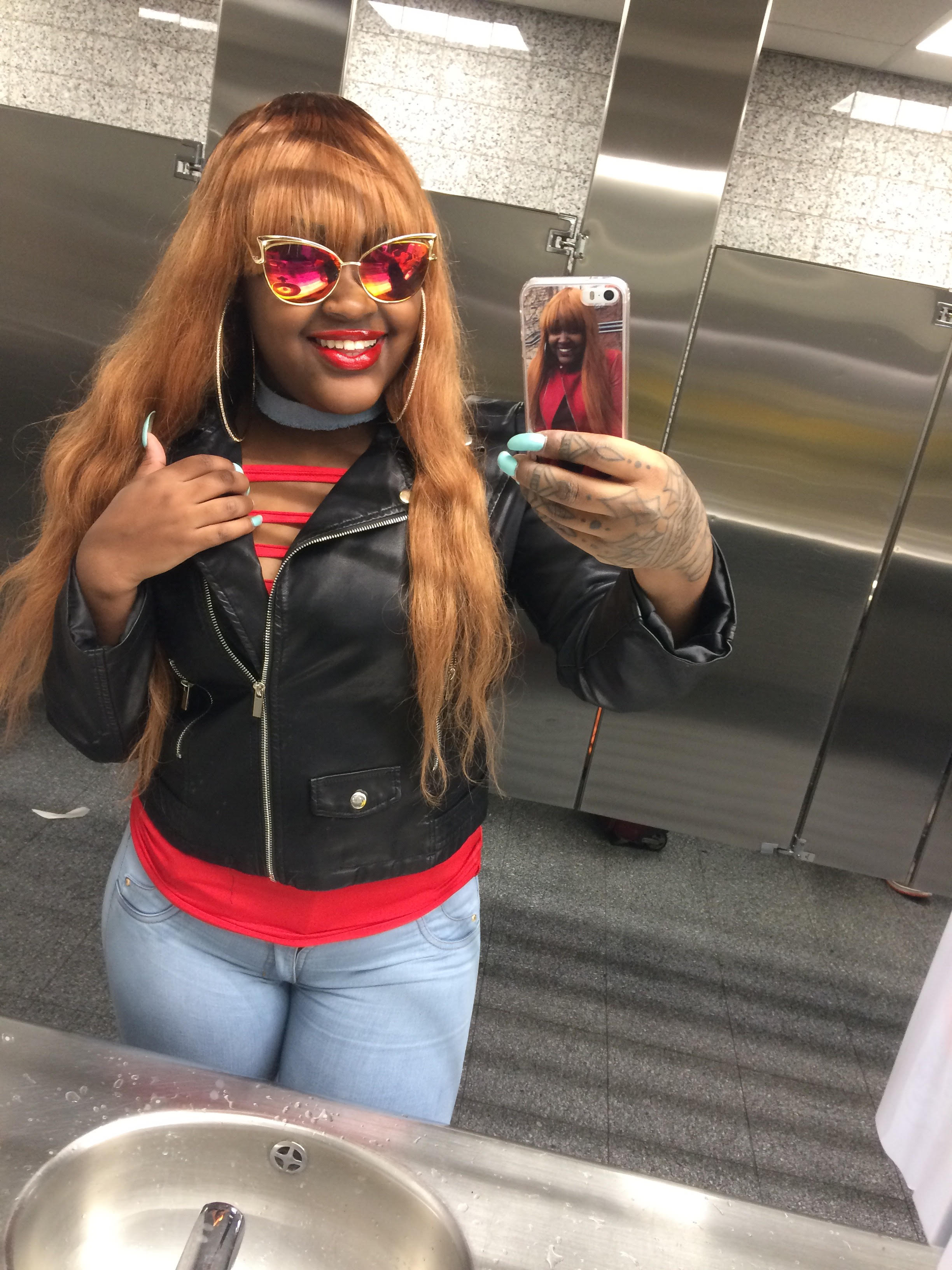 Self-taken photo of CupcakKe (herself) in a public restroom.